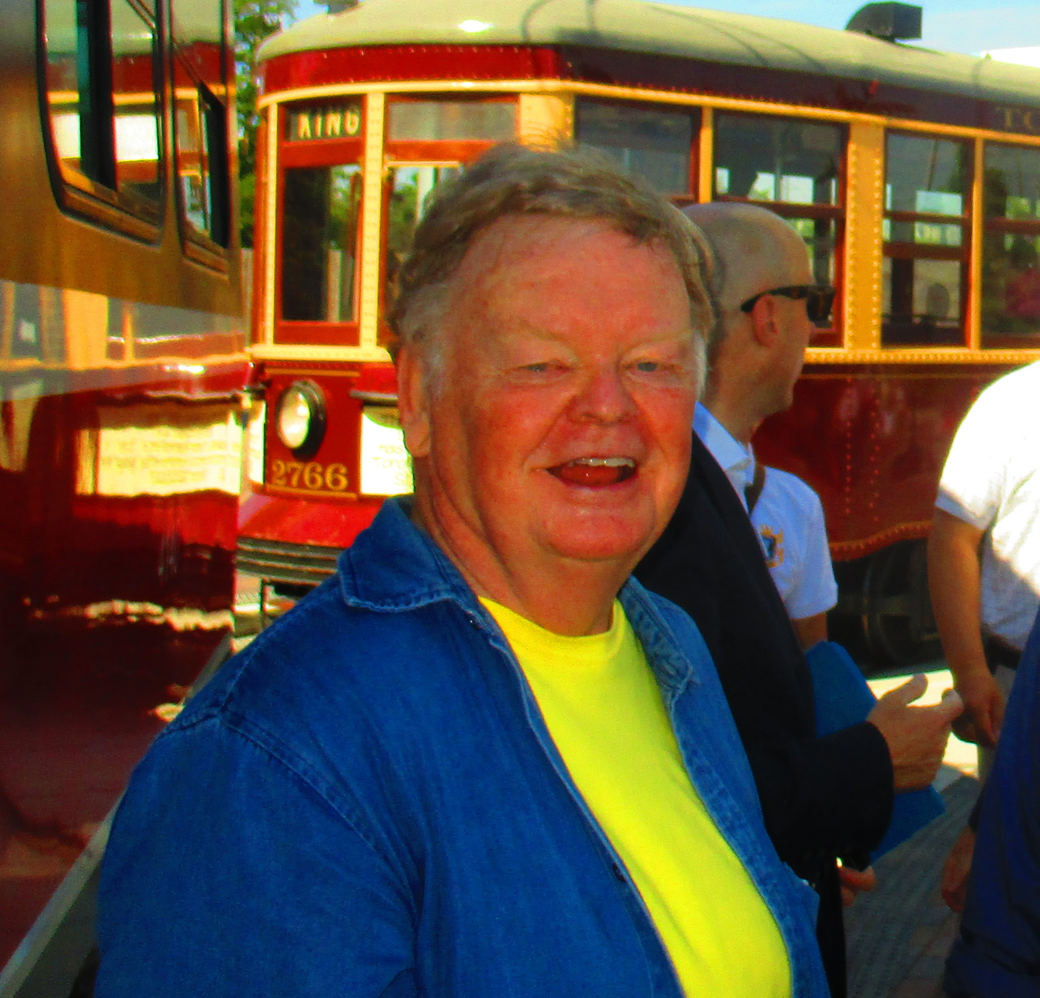 Mike Filey and Steve Munro, prior to a ceremony at the Distillery Loop, 2016 06 18